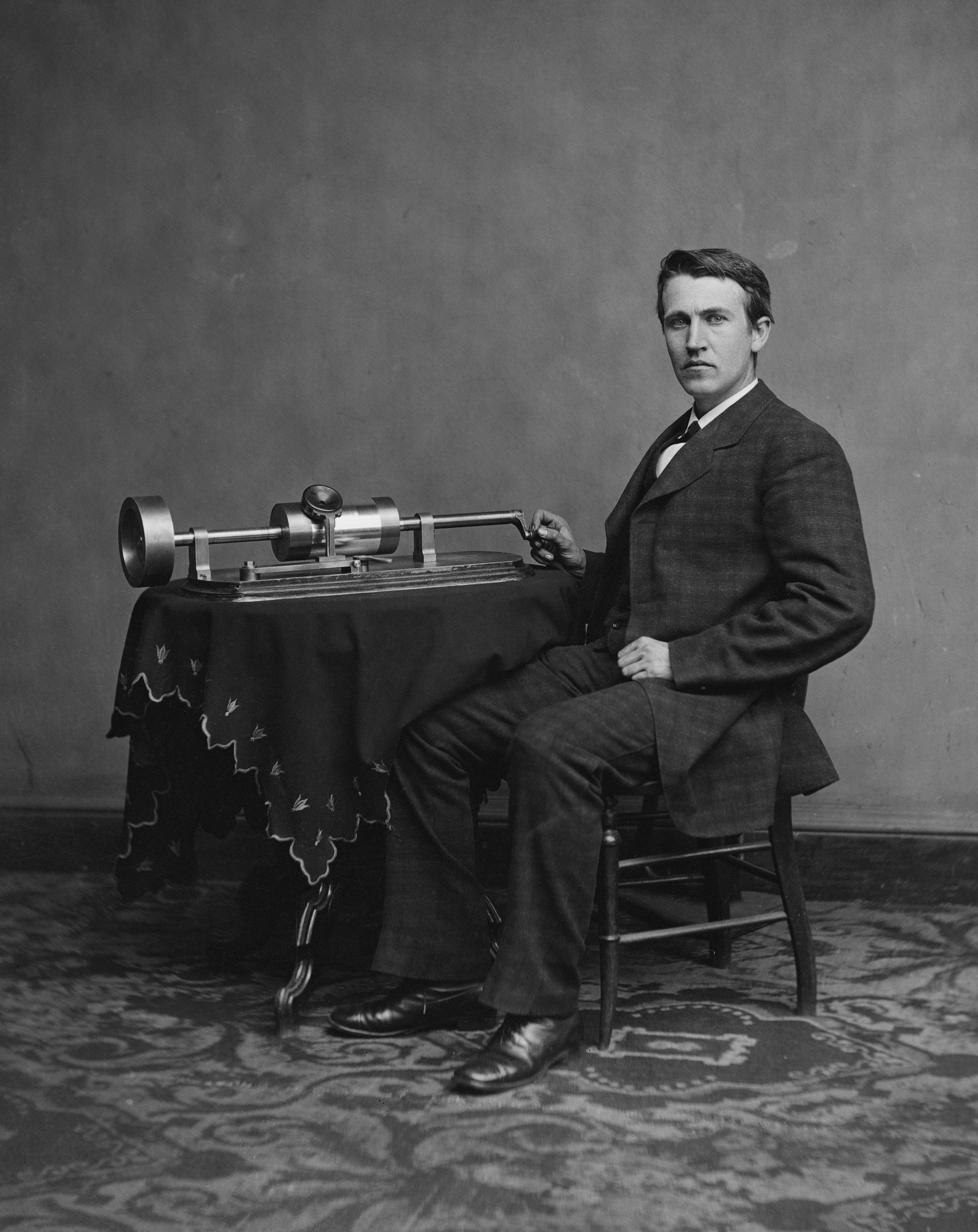 Thomas Edison and his early phonograph. Cropped from Library of Congress copy.